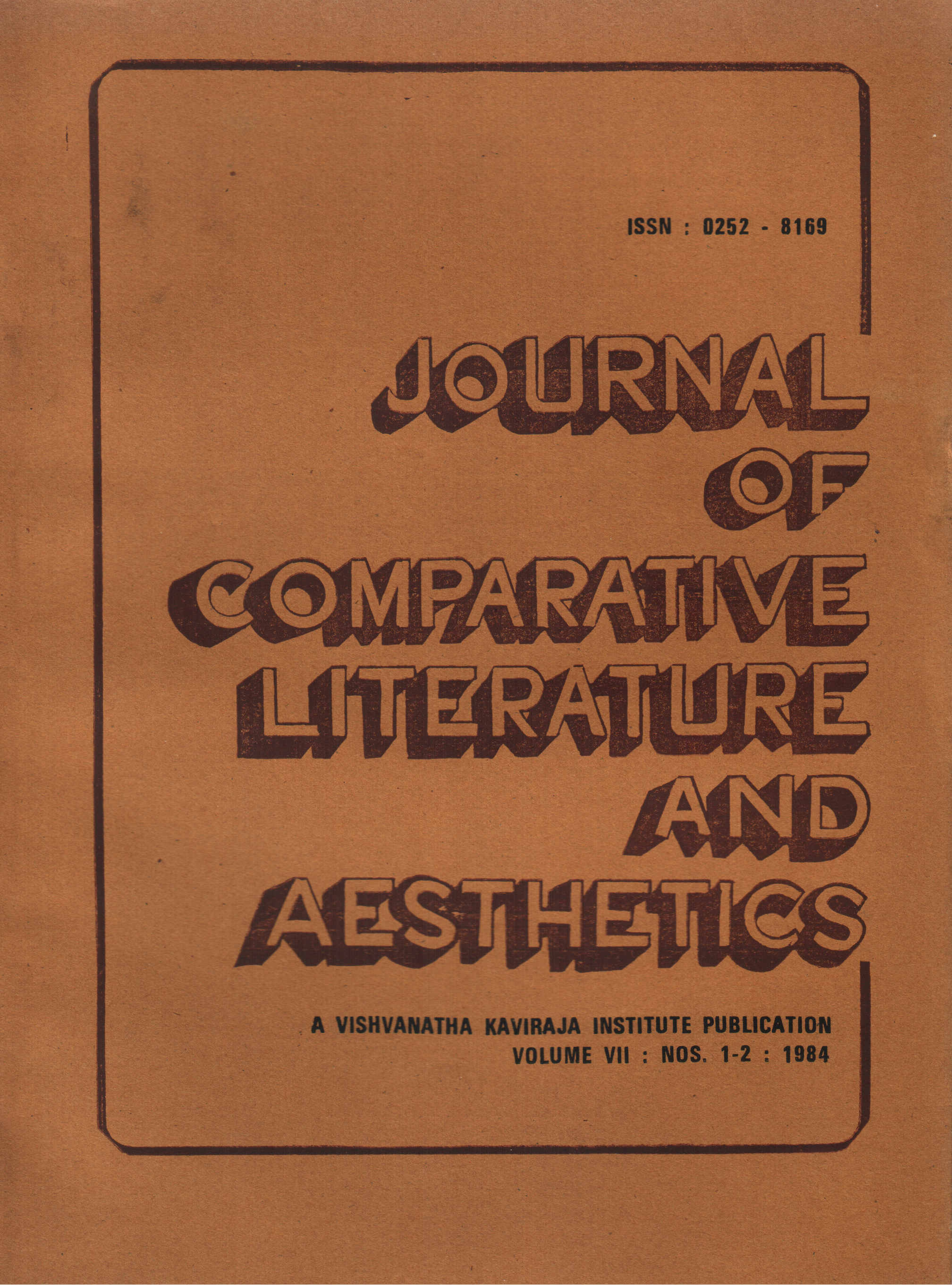 Front Cover of JCLA